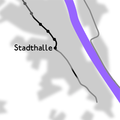 Projected extension of the Bonn light rail (urban railway): Bad Godesberg, Stadthalle – Pennenfeld – Lannesdorf – Mehlem